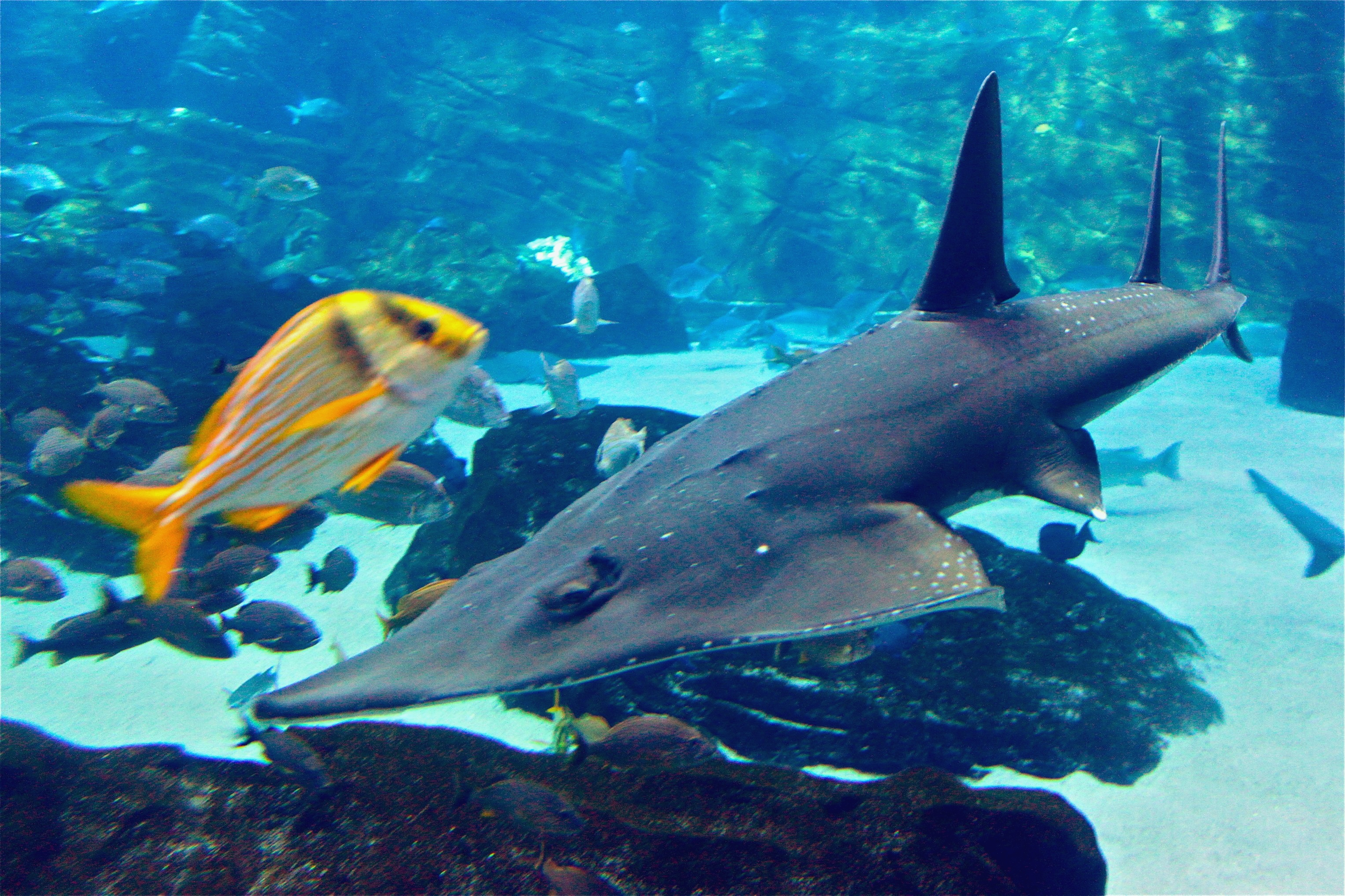 Giant guitarfish (Rhynchobatus djiddensis) at the Georgia Aquarium.